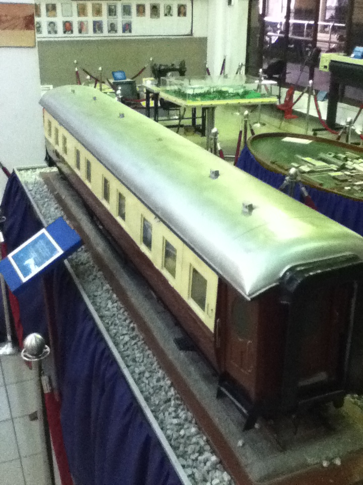 Picture of display of railwayana at KL old station